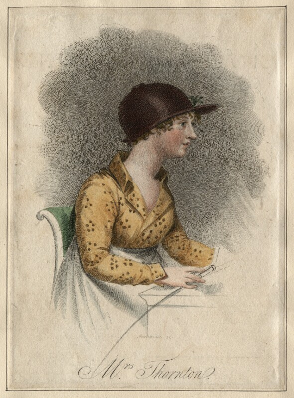 Alicia Thornton Alicia Thornton by Mackenzie, after unknown artist stipple engraving, published 1805. NPG D8248 © National Portrait Gallery, London